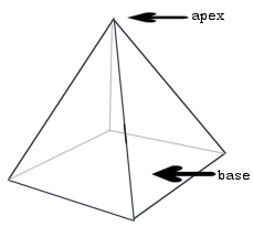 line drawing of a pyramid-shape